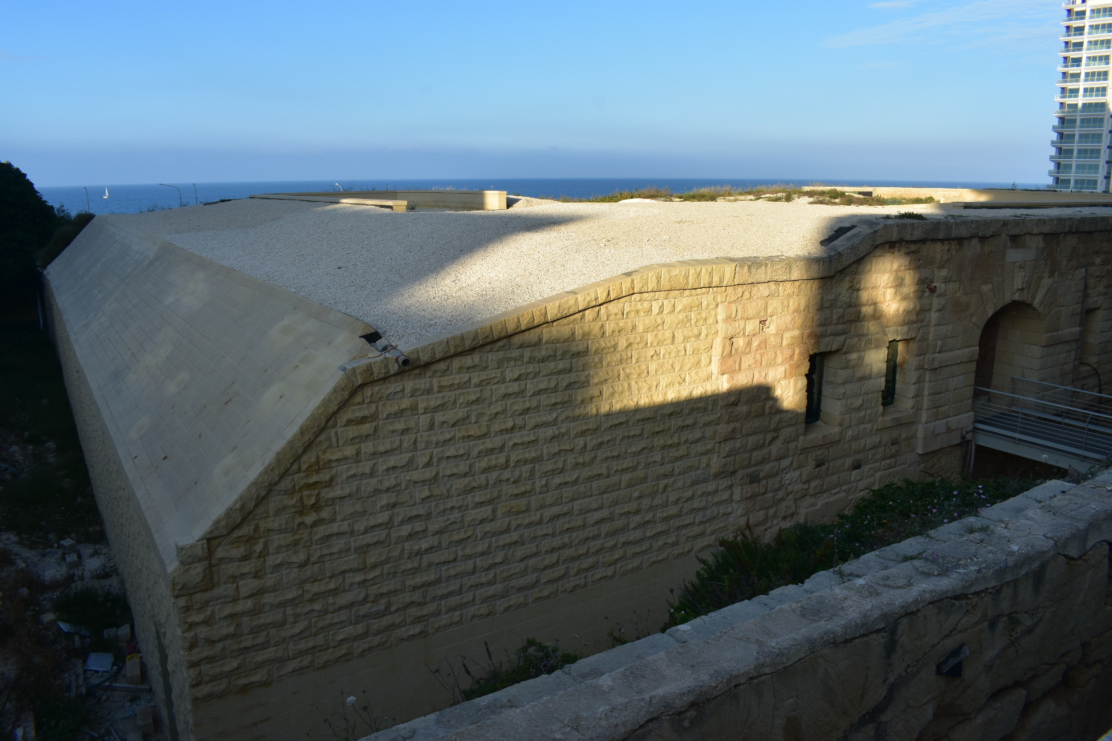 Cambridge Battery